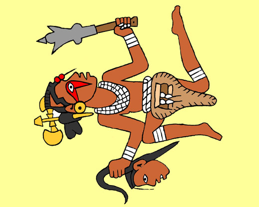 A mythological figure holding a severed head and a ceremonial mace, from an engraved shell gorget design from the S.E.C.C. found at the Castalian Springs Mound Site.